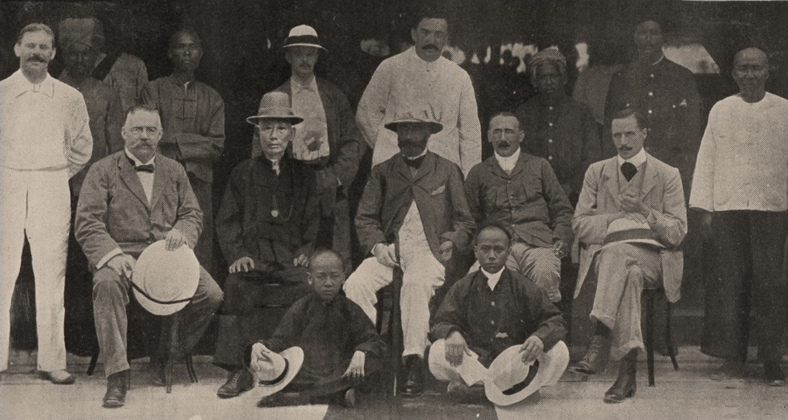 A group photograph, seated second from left were, Chinese tycoon Ng Boo Bee, Sir John Anderson (Governor of Straits Settlements), Sir Frank Swettenham. This picture was donated by Ng Boo Bee to the Perak Museum.